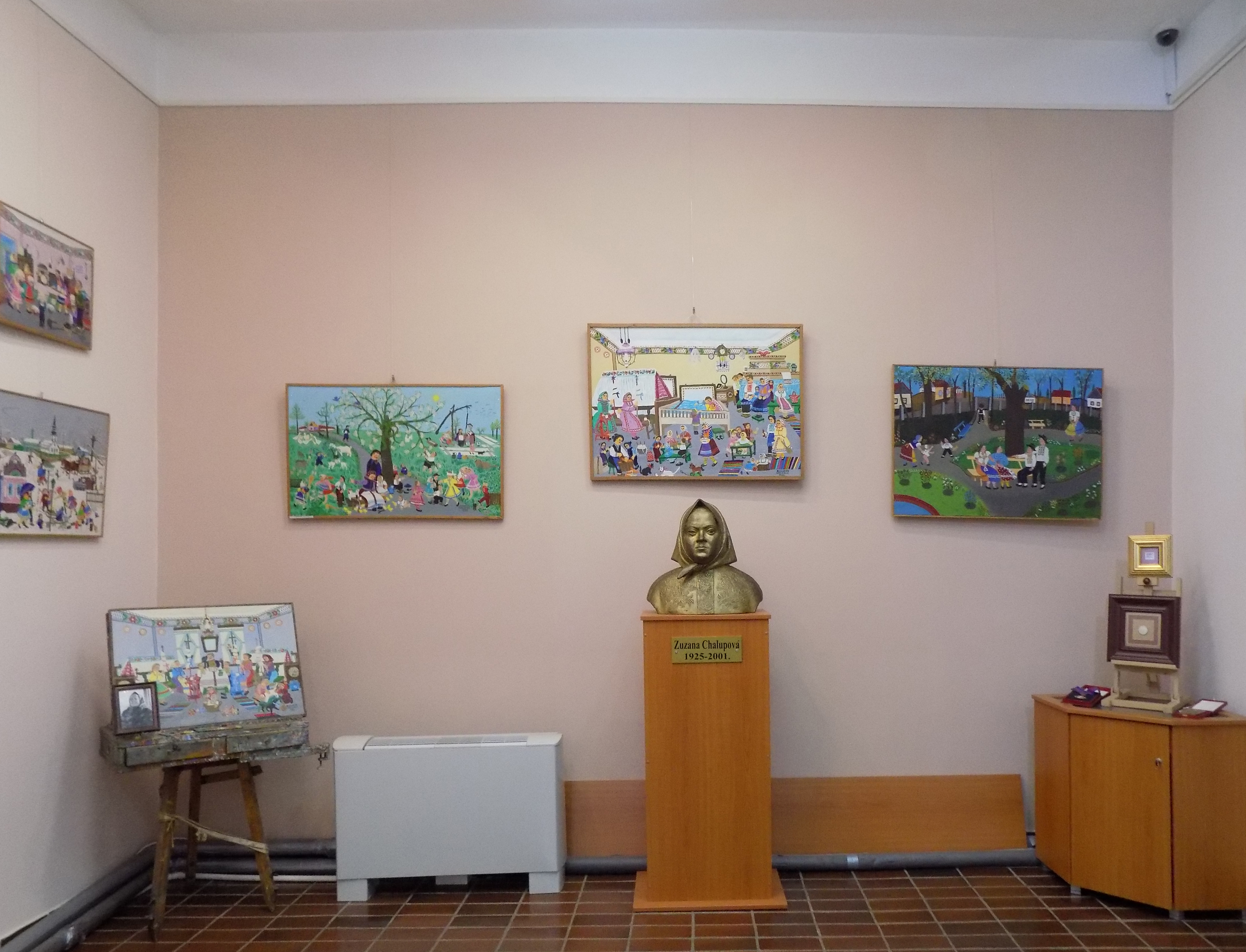 A space dedicated to the character and work of Zuzana Chalupová in the Gallery of Naive Art in Kovačica